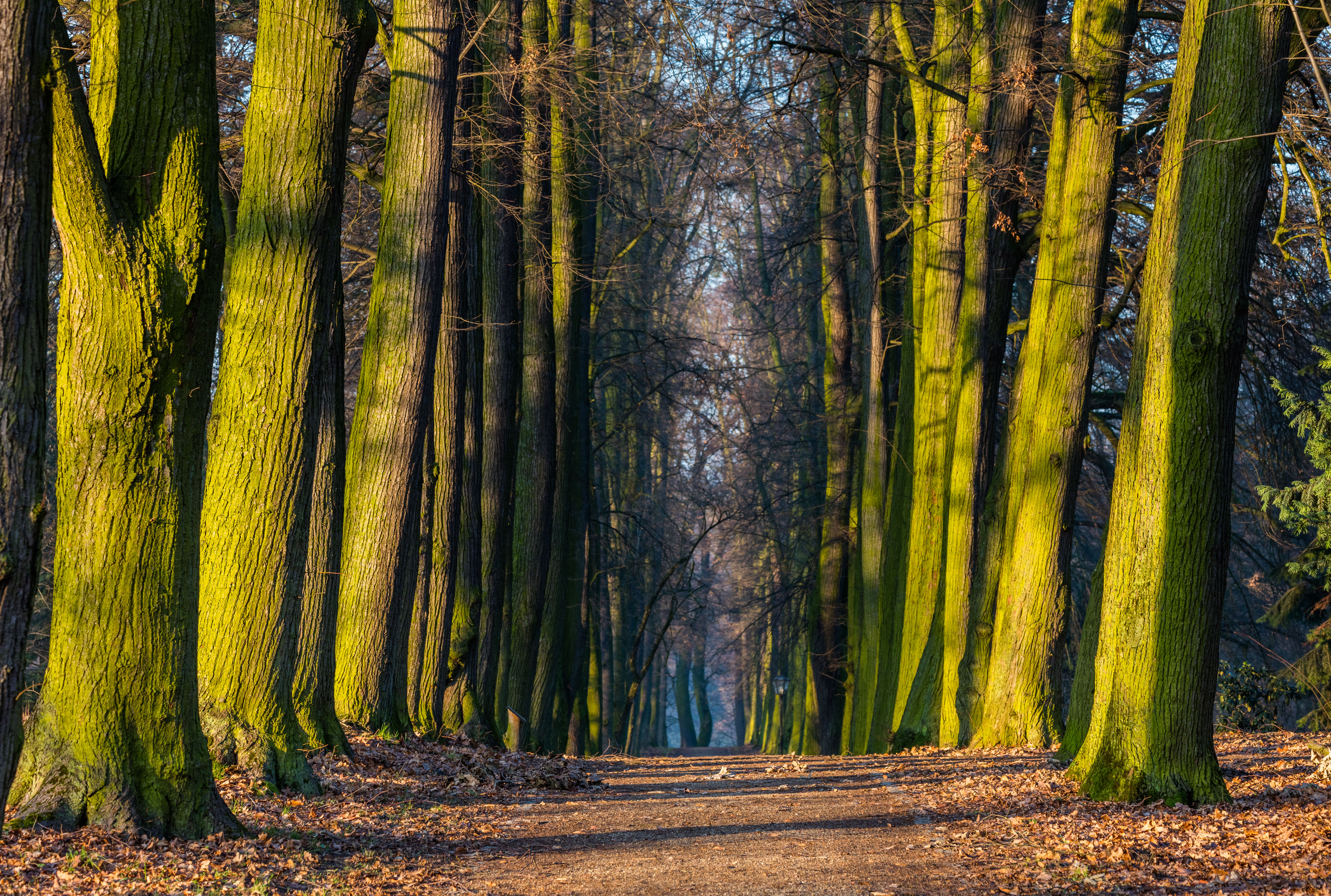 Arboretum in Gołuchów, Greater Poland, Poland